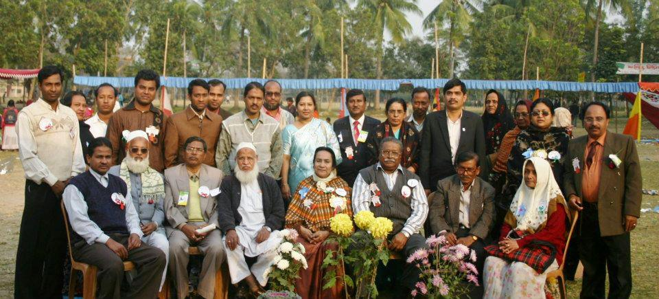 শিক্ষক-শিক্ষিকা বৃন্দ - সাবেক এবং বর্তমান